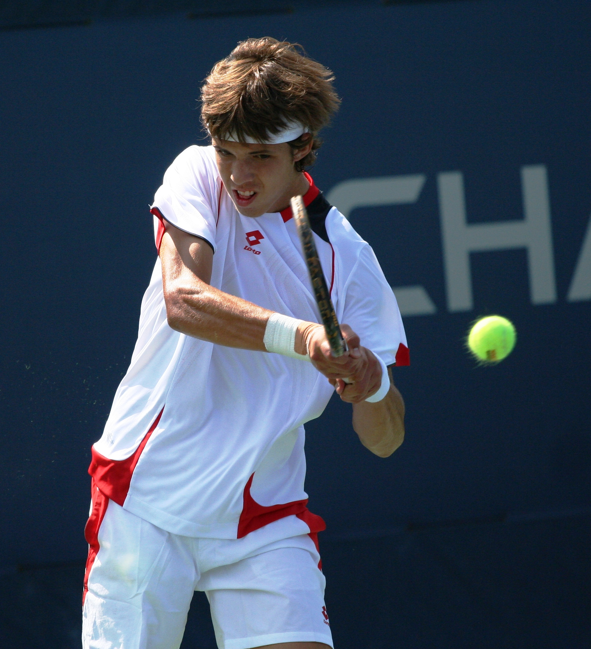 Jiri Vesely at the 2010 US Open